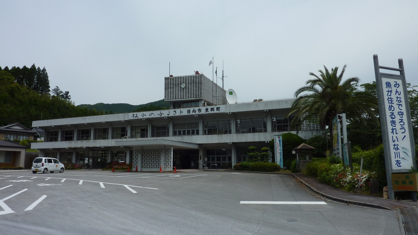 Hyuga City Togo District Center (May, 2010 - Miyazaki Prefecture, Japan) Present "Hyuga City Office Togo Synthesis Office".